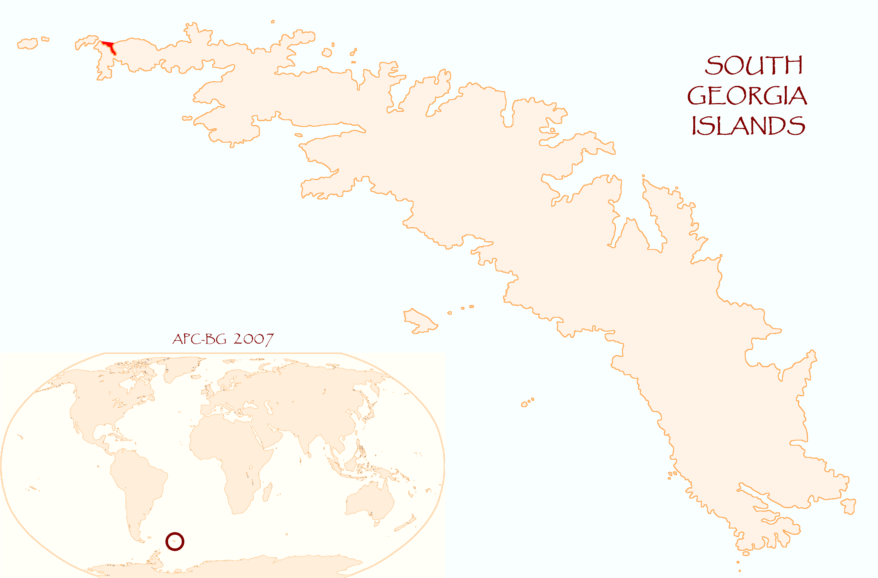 Location map for Elsehul, South Georgia published by the author Apcbg.